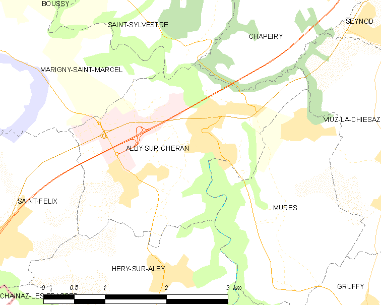 Map of French municipality Alby-sur-Chéran